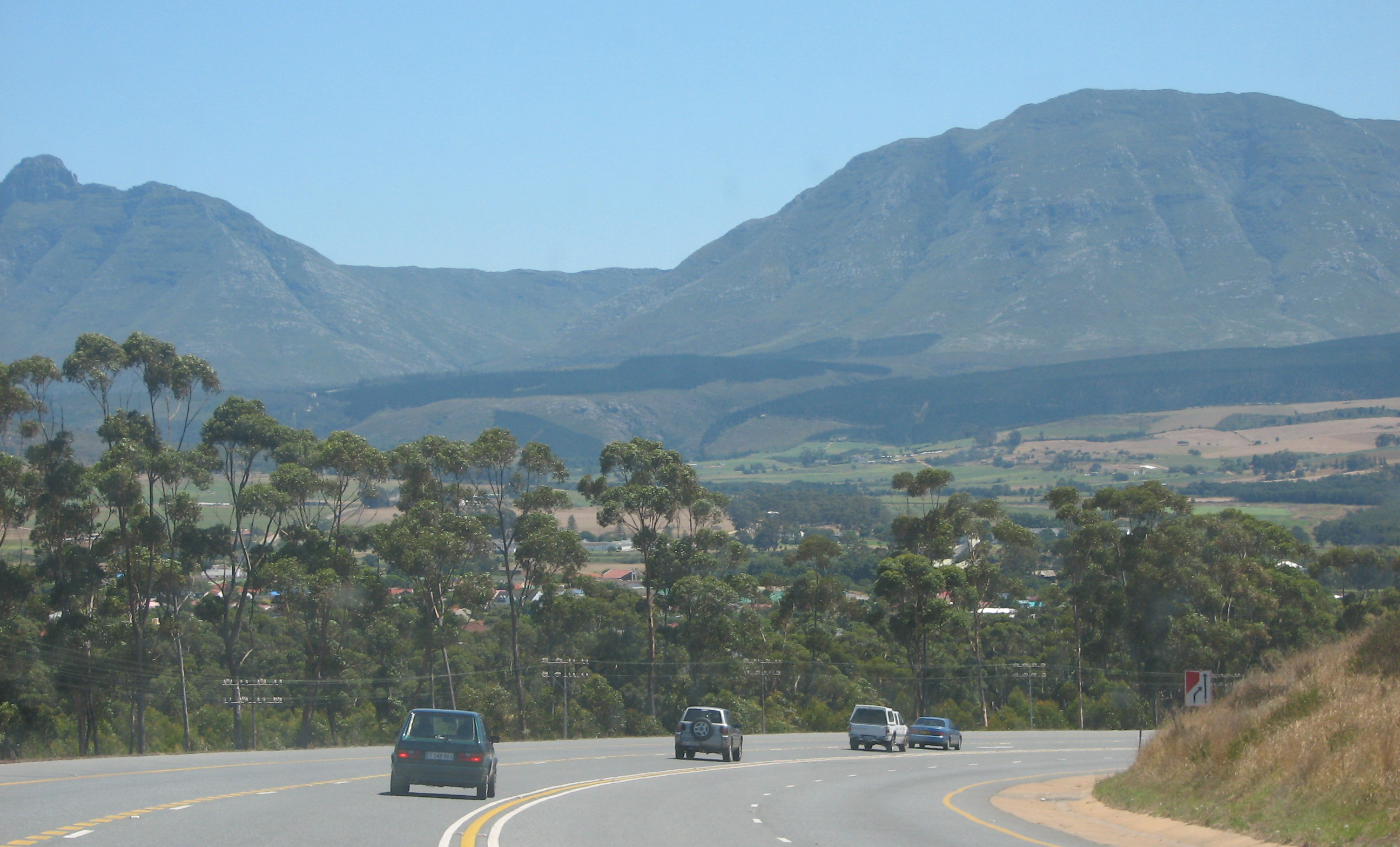 Riversdale, Western Cape